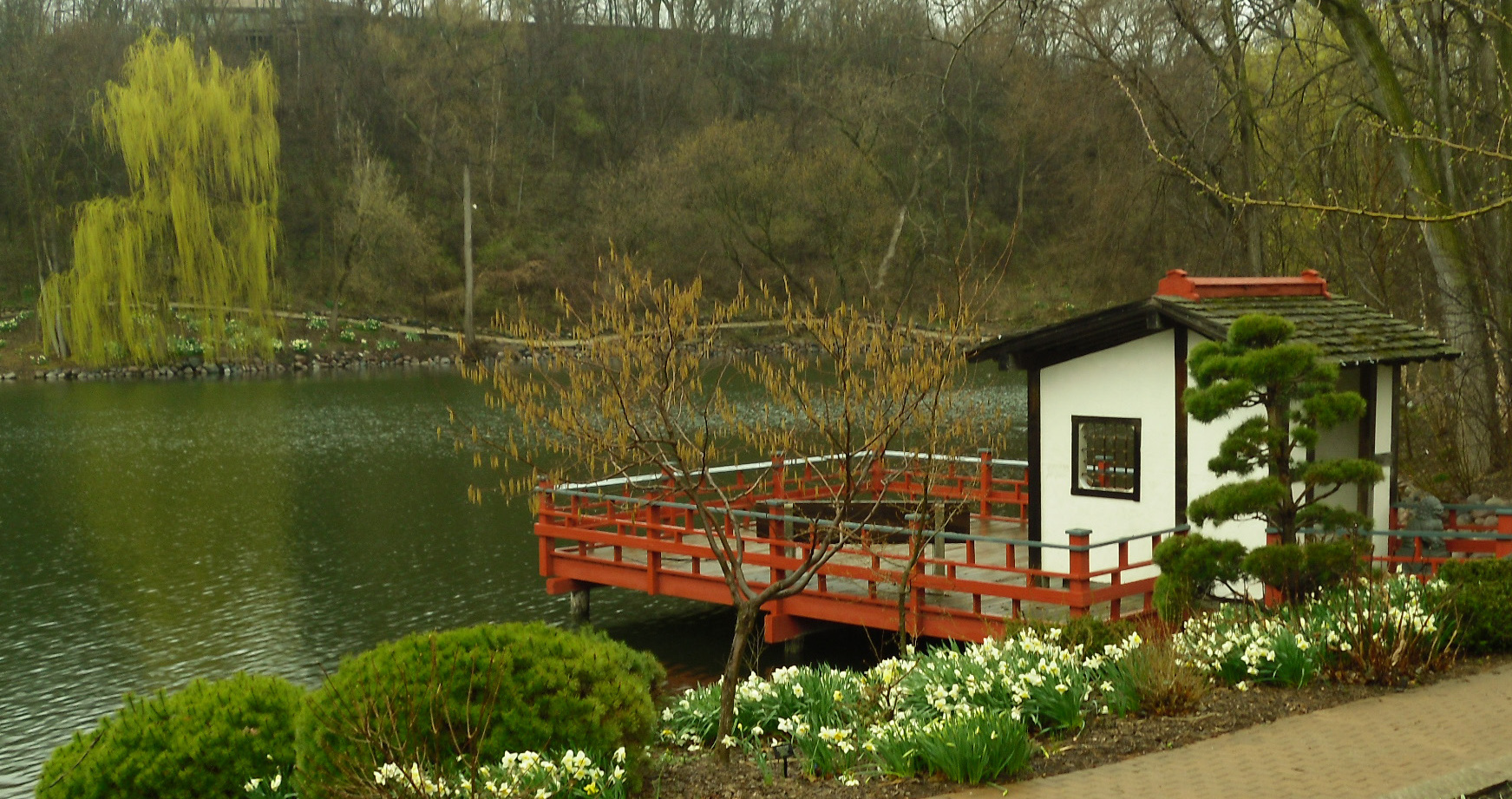 Rotary Gardens Janesville Wisconsin - View of Pond and Japanese Garden area April 2011